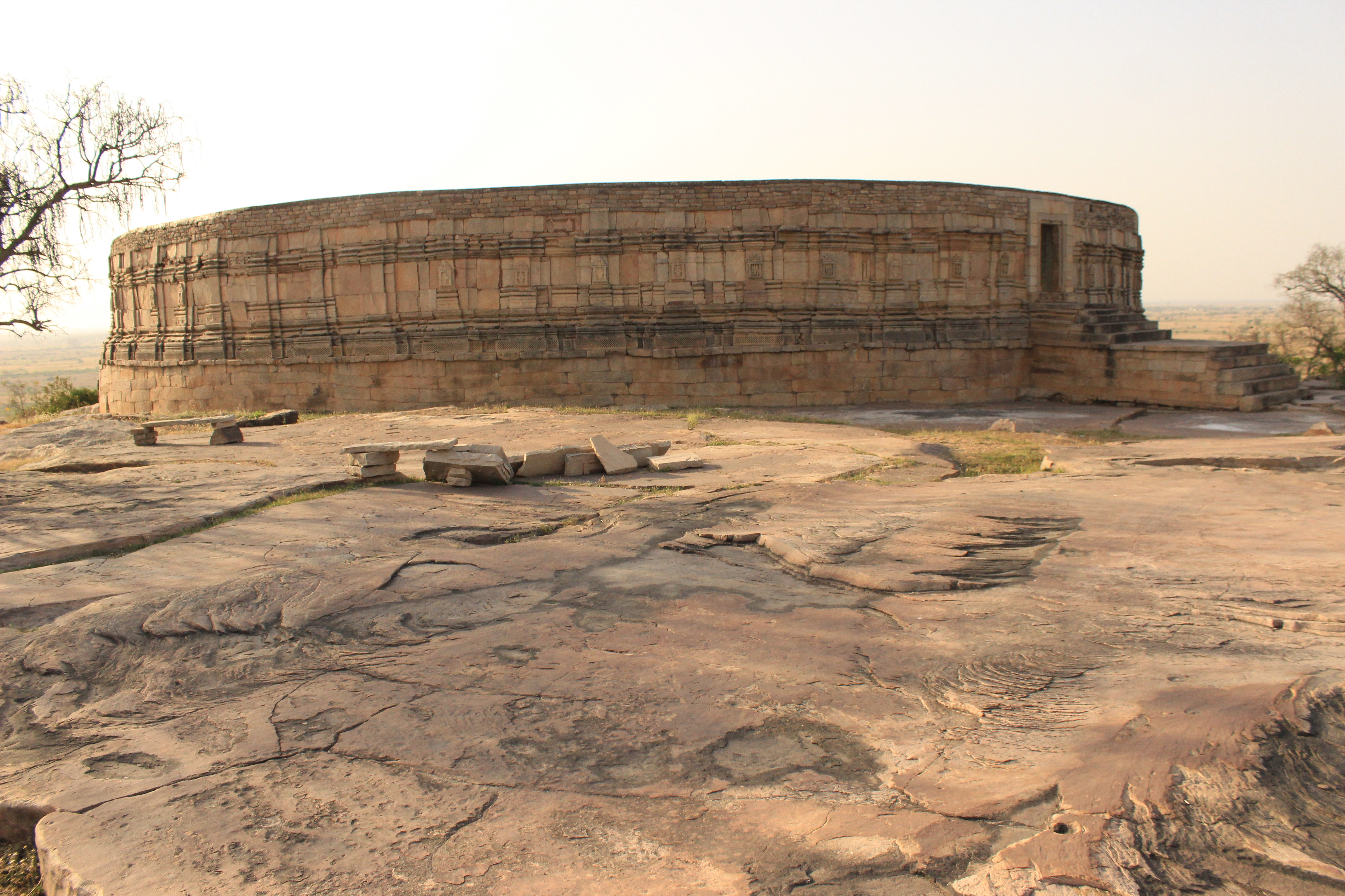 The platform is flatter and is visible from afar